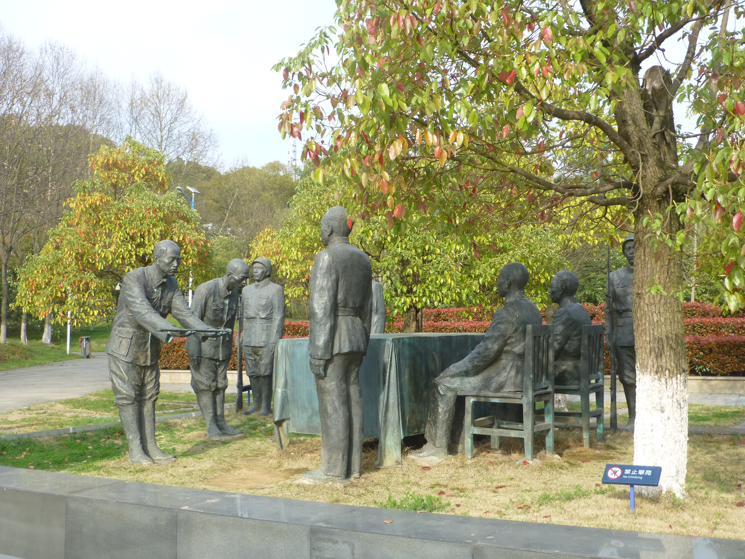 The victory memorial in Zhongshan Warship Tourist Area.